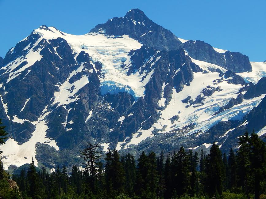 Mount Shuksan seen from Picture Lake. Annotations for Hanging Glacier and White Salmon Glacier